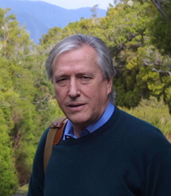 Photograph of Andrew Lumsden